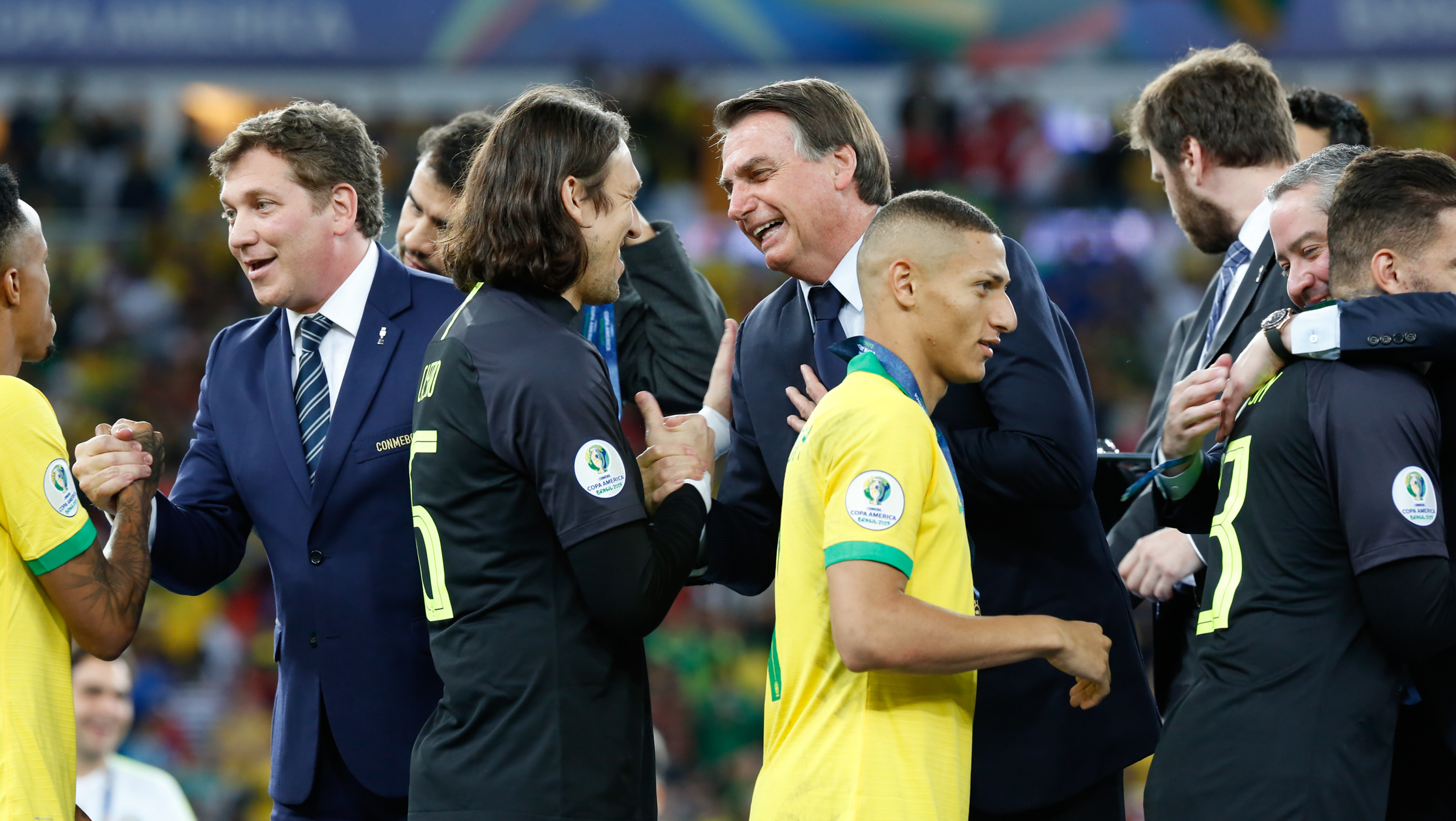 (Rio de Janeiro - RJ, 07/07/2019) Presidente da República, Jair Bolsonaro, e o Presidente da Confederação Sul-Americana de Futebol (CONMEBOL), Alejandro Domínguez, durante entrega da premiação da Copa América 2019. Foto: Carolina Antunes/PR